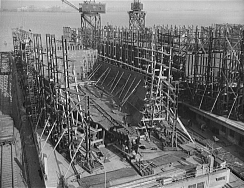 A new vessel has just moved off these ways, and the keel is being assembled for yet another in a large Eastern shipyard. The bottom and side shell plating and the inner tank sections are being assembled. All parts are prefabricated in this huge Eastern plant which formerly turned out freight cars. The completed sections are then carried six miles to the ways on flat cars Construction of a Liberty ship at Bethlehem-Fairfield Shipyards Inc., Baltimore, Maryland (USA) in March/April 1943 Assembly of the bottom and side shell plating and the inner tank sections.